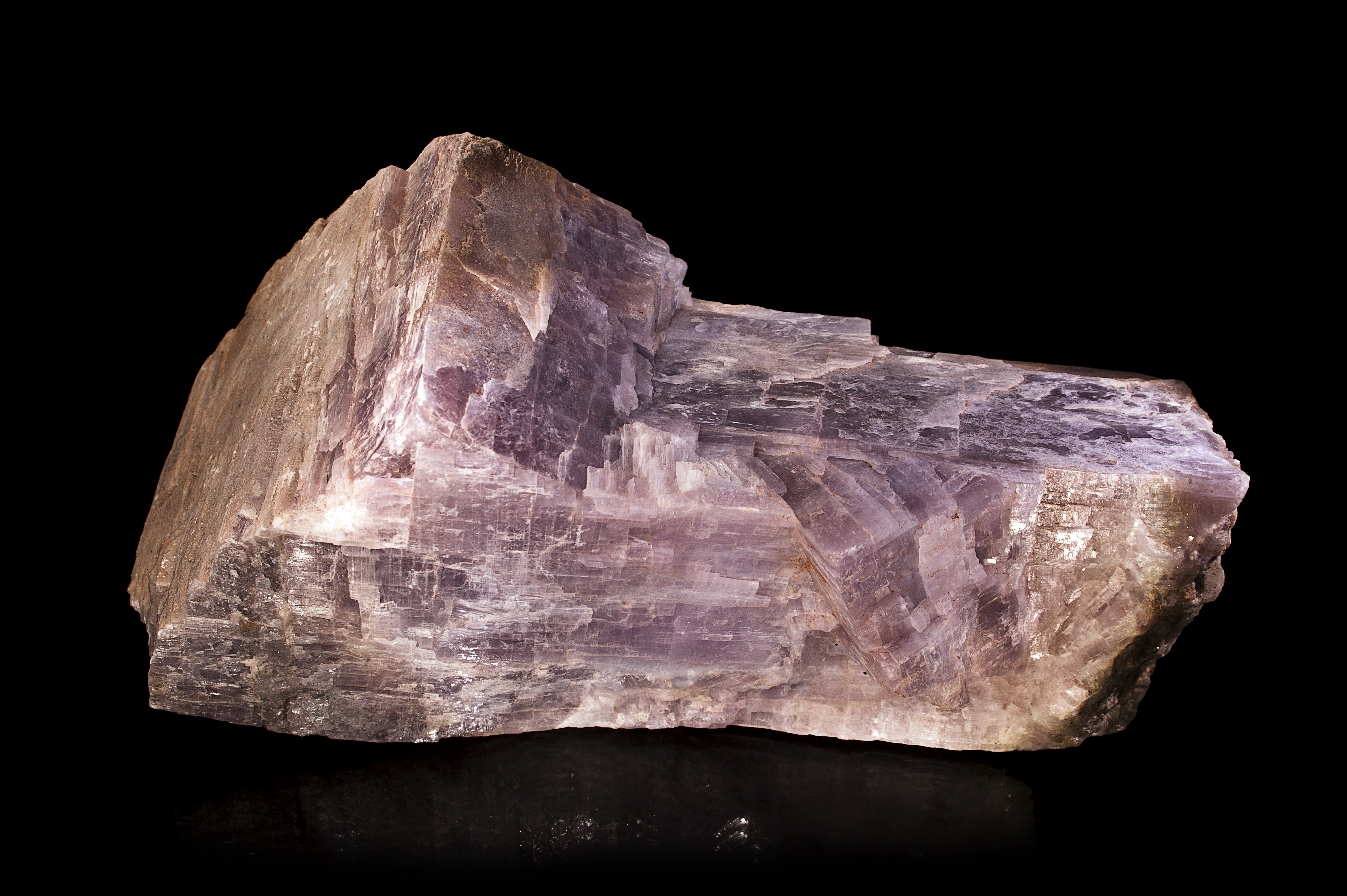 Anhydrite - Gypsum Quarry Arnave, Tarascon-sur-Ariège, Ariège, Midi-Pyrénées - Size 31x16x15 cm